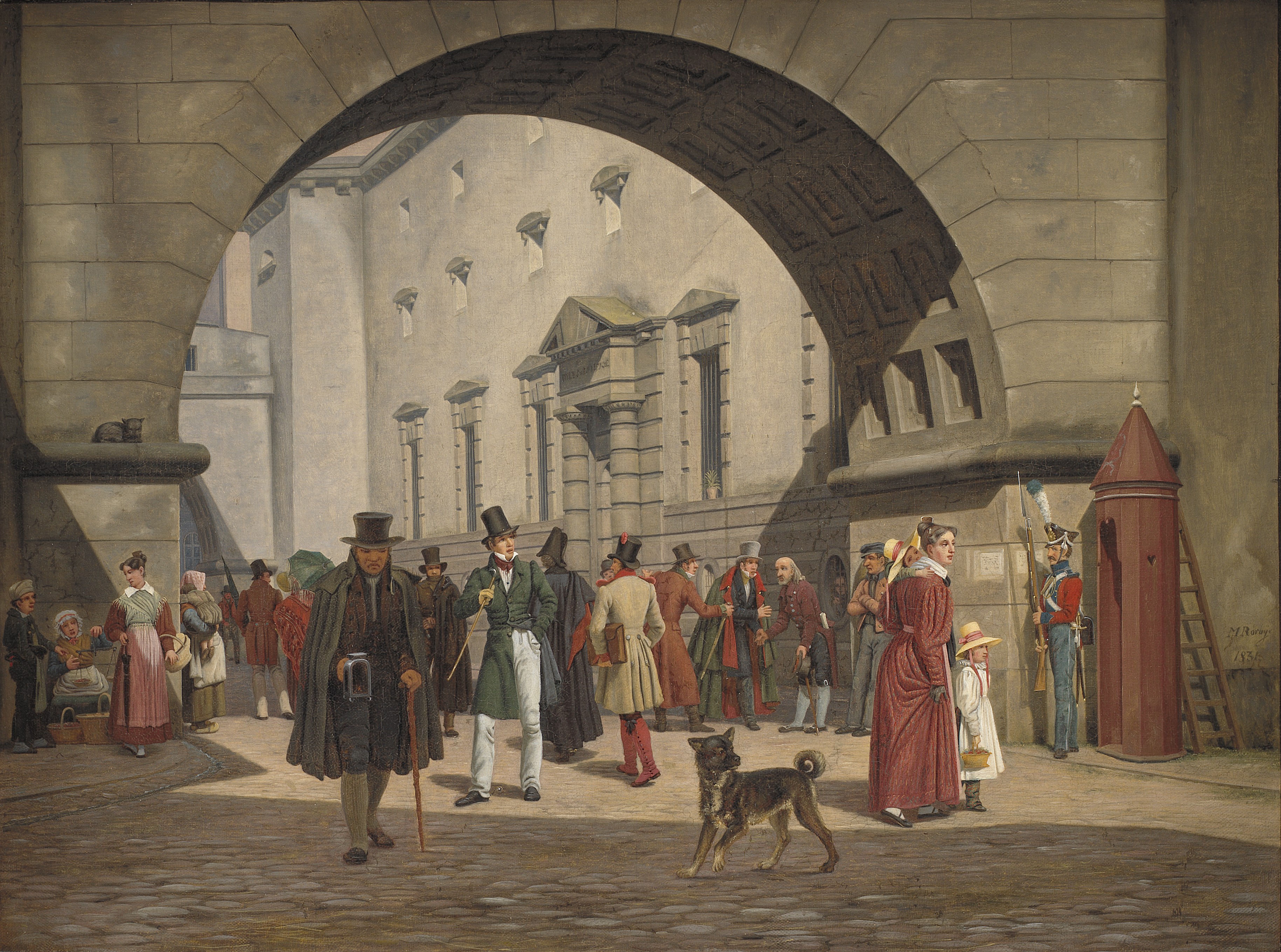 Depicted place: (55°40′36″N 12°34′20″E / 55.676734°N 12.572104°E)